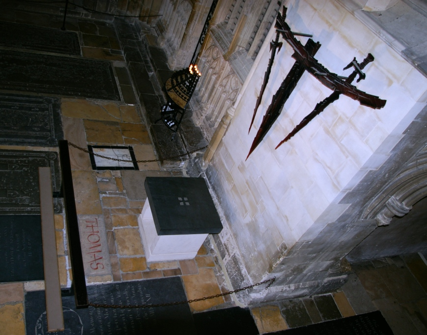 Canterbury cathedral, the place where Thomas Becket was murdered in 1170